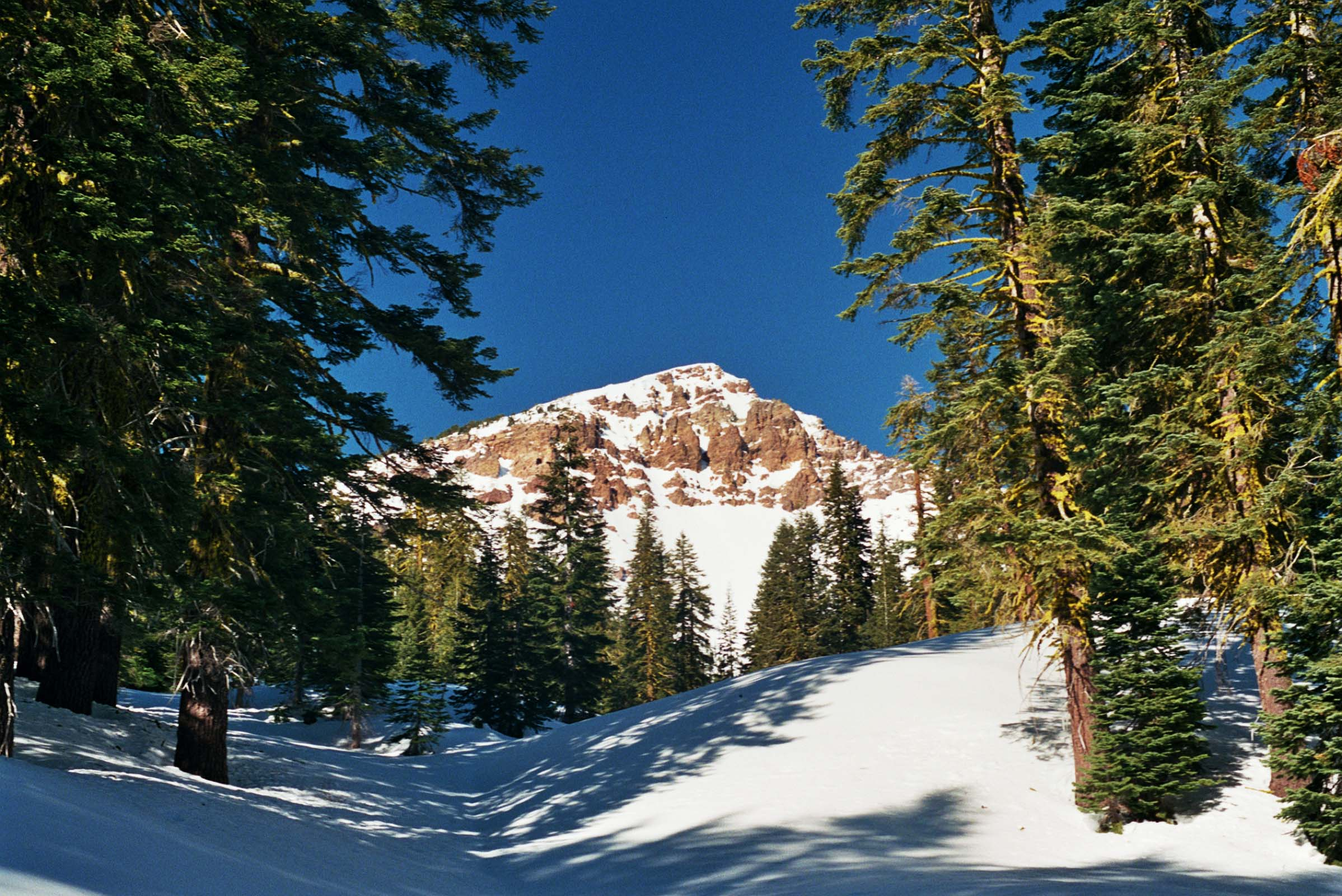 Brokeoff Mountain in the winter. This photo was taken during the ascent of the mountain. Photograph by Ryan Grimm. Taken in February 2005.